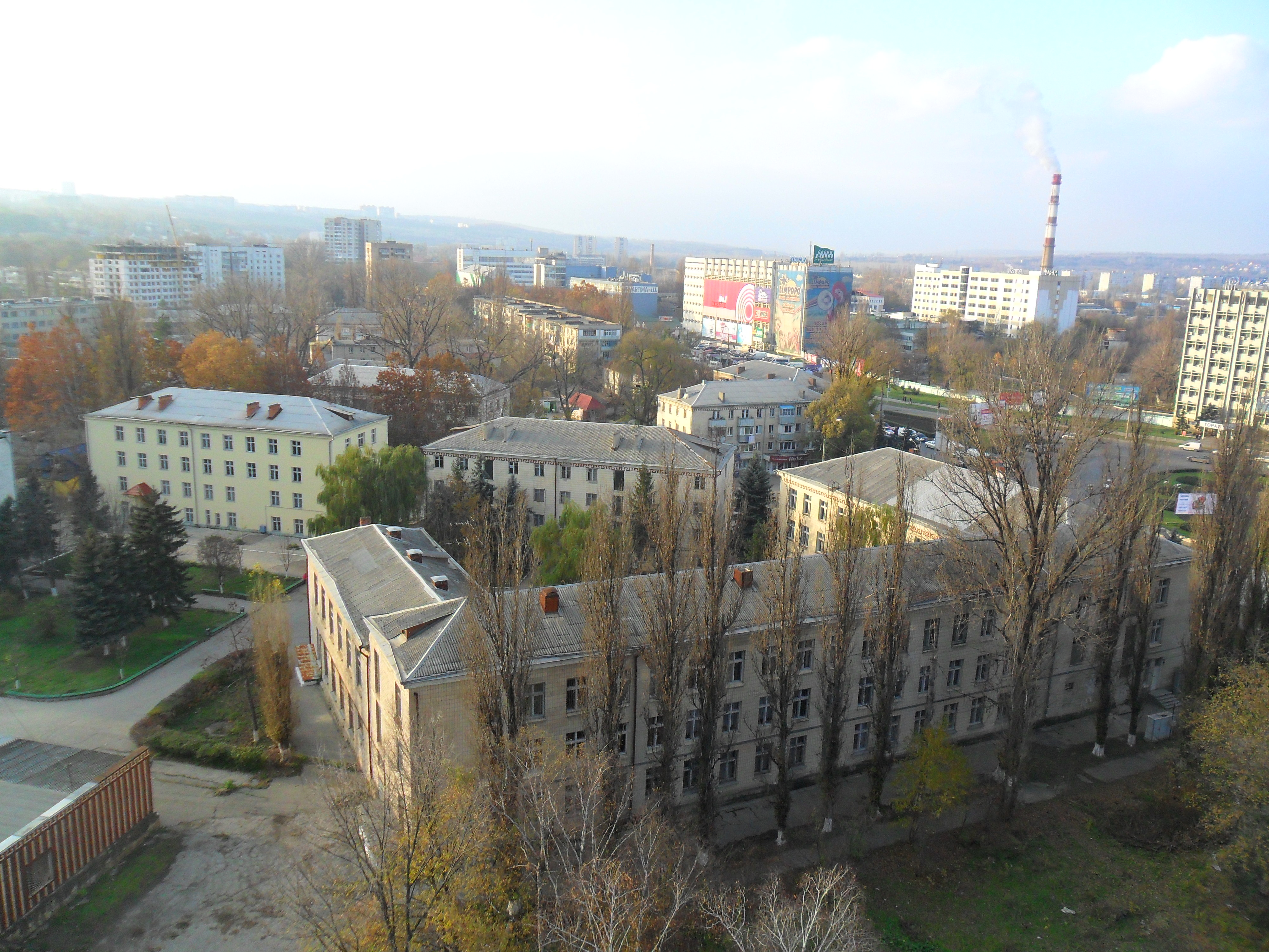 Some of the buildings of of Ion Creangă Pedagogical State University, Chișinău, Moldova